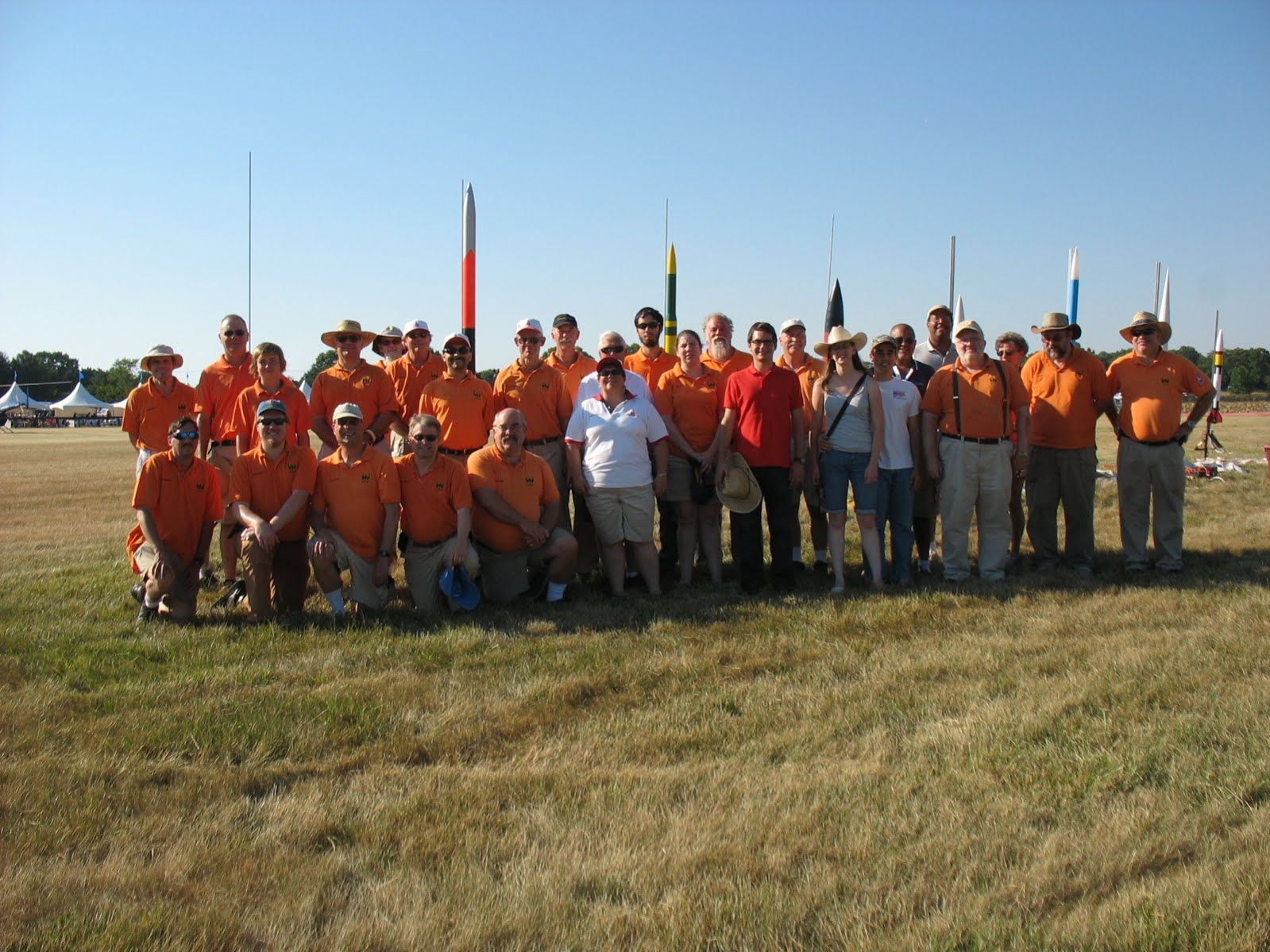 Members of the Northern Virginia Association of Rocketry (NOVAAR) at a demonstration launch, The Plains, Virginia, USA, 4 July 2010